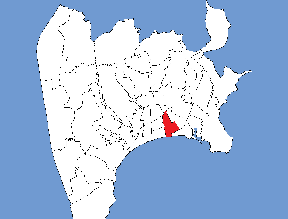 Location of the neighbourhood Medecin in Nice